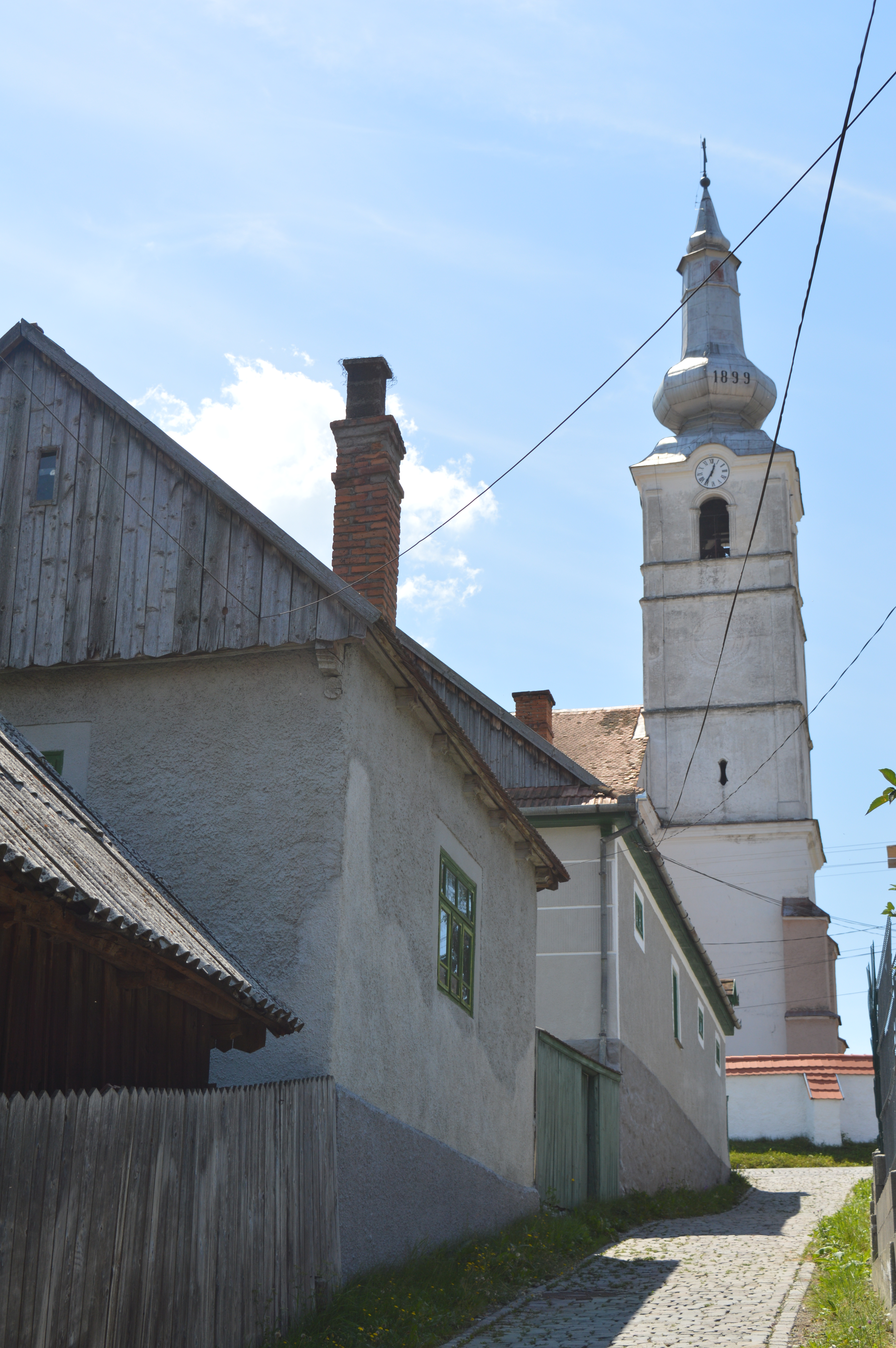 St. Lenard temple, Gyergyóremete